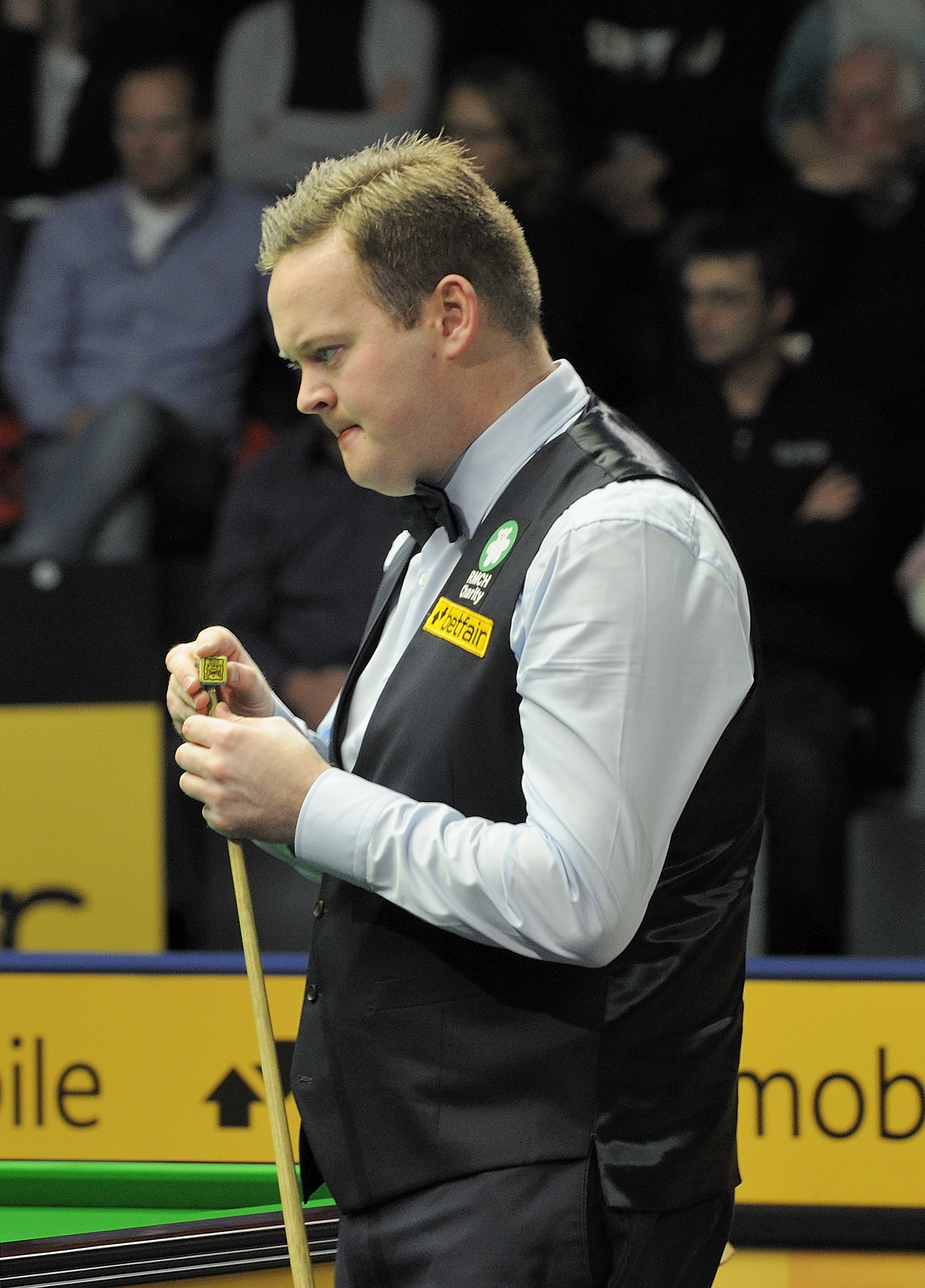 Picture taken in Berlin during the Snooker German Masters in 2013. Shaun Murphy.